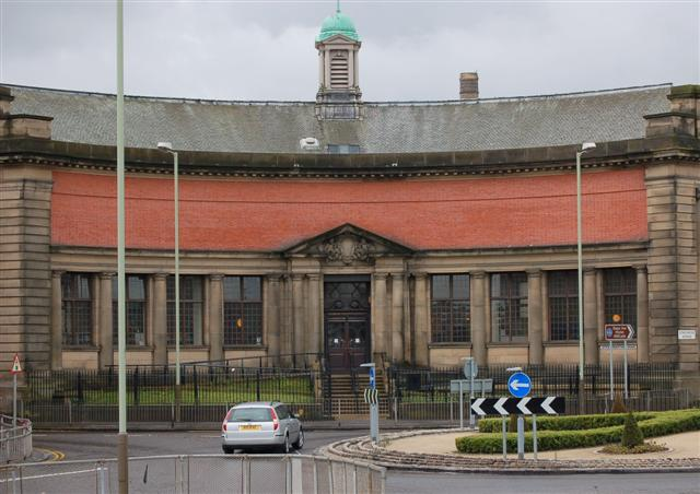 Library This building is Coldside library, it has been here on Strathmartine Road since 1908.